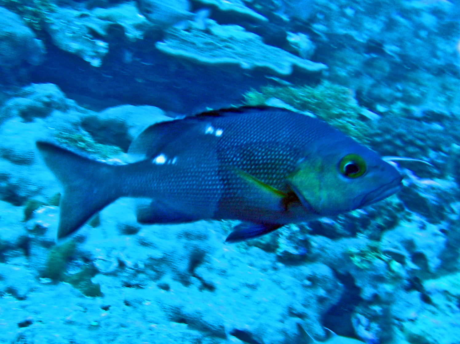 Two-spot red snapper Lutjanus bohar from French Polynesia